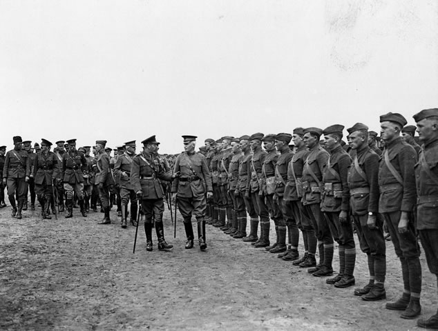 King George V of Britain and Maj. Gen. Edward Mann Lewis review the 30th Infantry Division (Old Hickory) in the British Second Army Area in Belgium